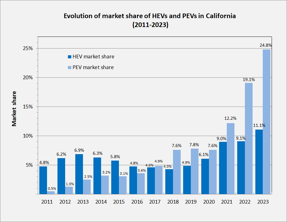 Evolution of market share of hybrid electric vehicles and plug-in electric cars in California (2011 through 2019) Source: California New Car Dealer Association (CNCDA): 2015-2019, 2014-2018, 2013, 2011-2012